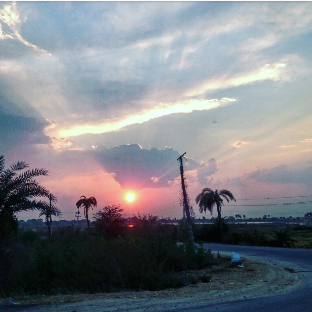 Navipet Looks damn beautiful in winter